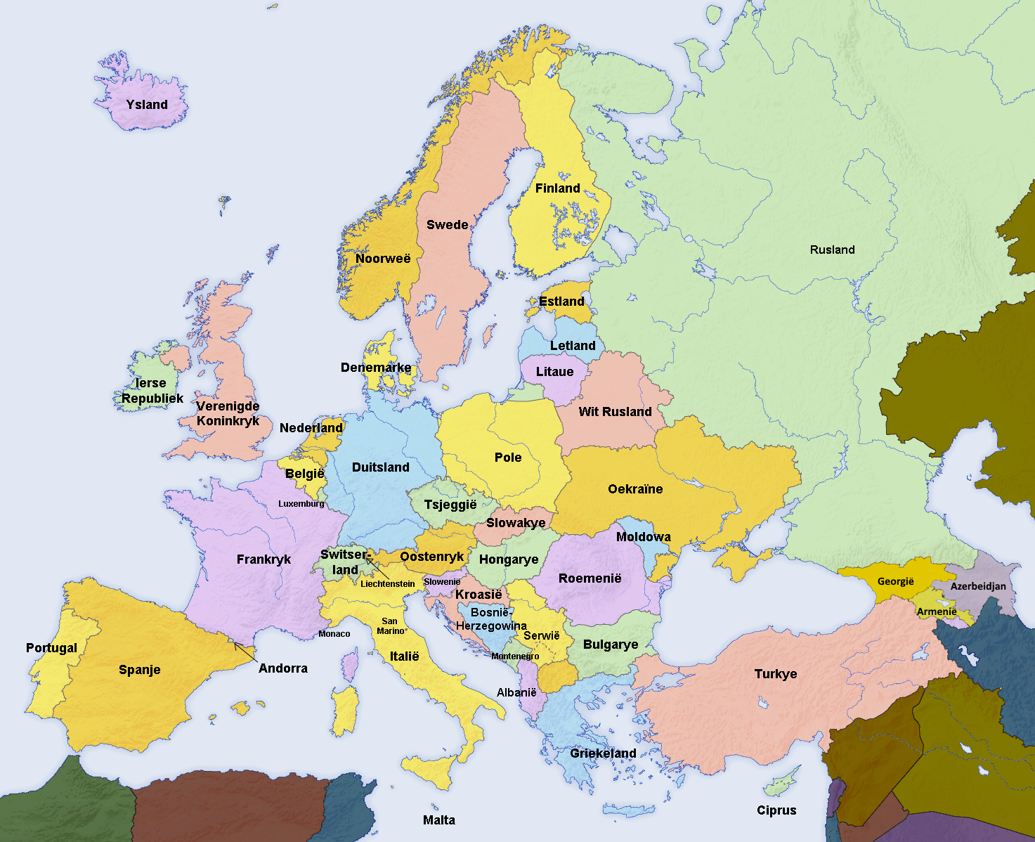 A political map of Europa